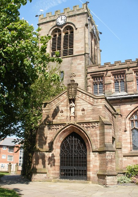 South porch and west tower of St Mary the Virgin parish church, Leigh, Greater Manchester